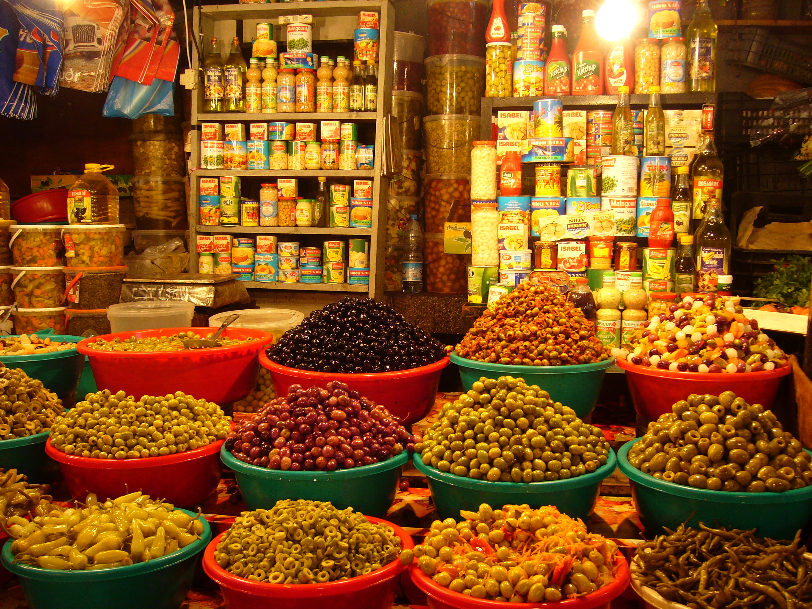 Olives and peppers at the market of Annaba, Algeria